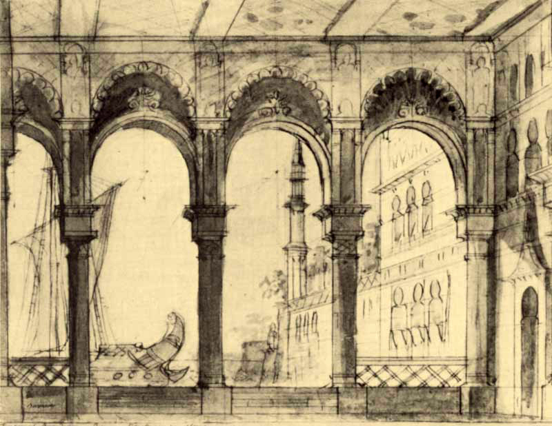 Set design by Francesco Bagnara (1784-1866) for the premiere of L'italiana in Algeri, Teatro San Benedetto, 1826. Held in the Museo Correr, Venice